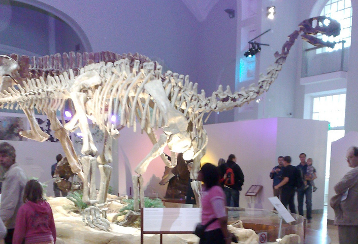 We had lots of fun this morning. Recommended!